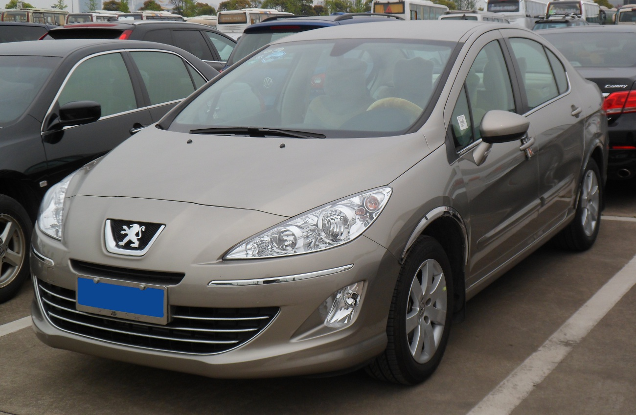 Peugeot 408 photographed in Anting, Shanghai municipality, China.